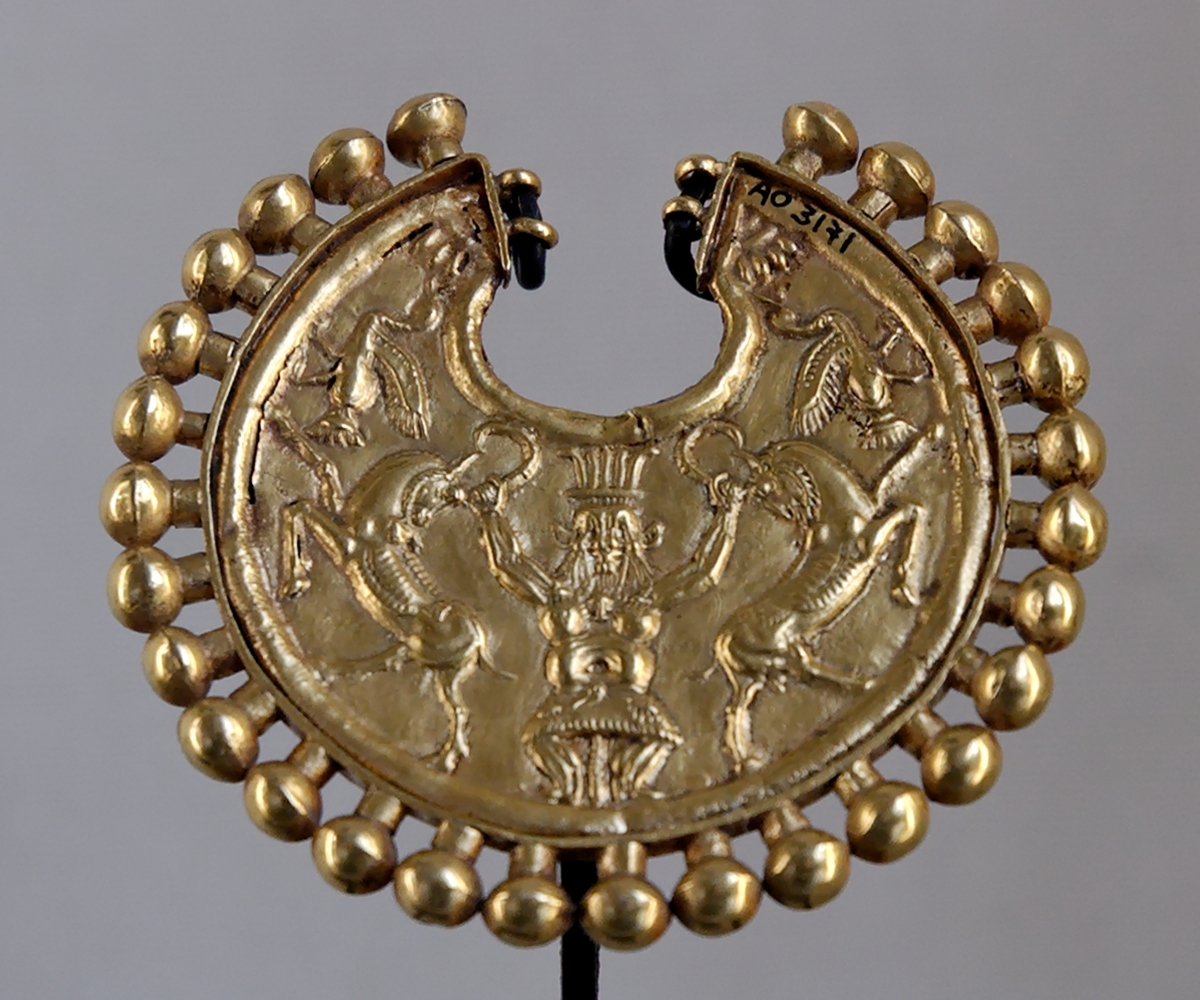 Pendant with Egyptian god Bes subduing two goats. Gold, Achaemenid artwork.